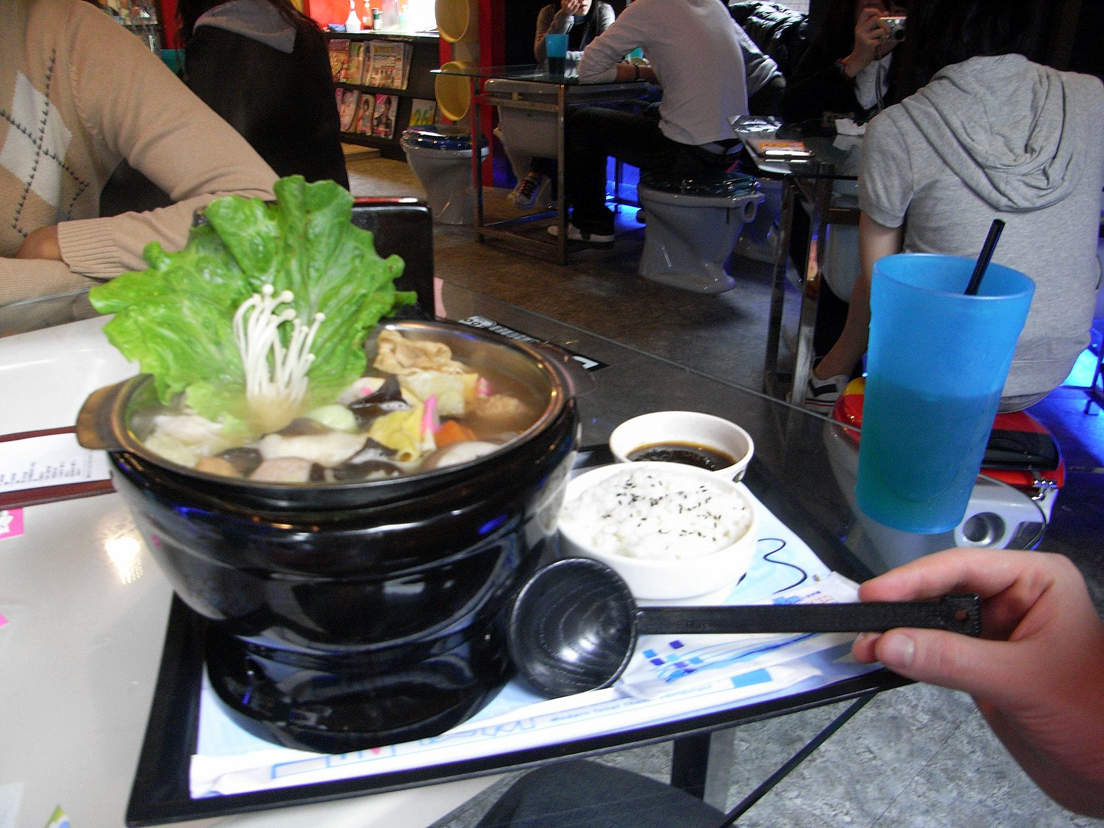 Toilet hot pot in Modern Toilet, Ximending, Taiwan.